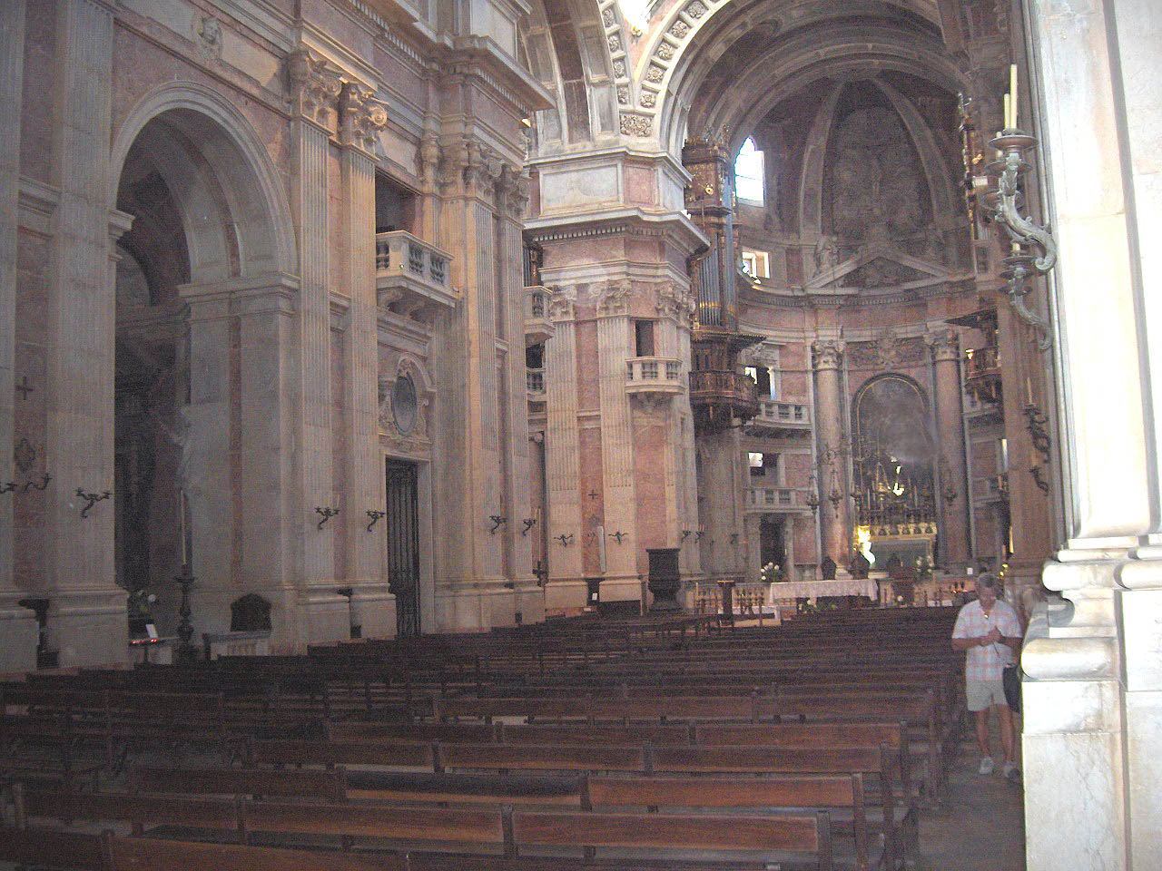 Nave of the church in the Mafra National Palace; Mafra, Portugal